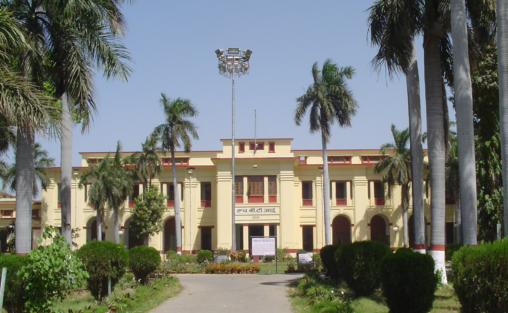 HBTI/HBTU Main (Administration) Building